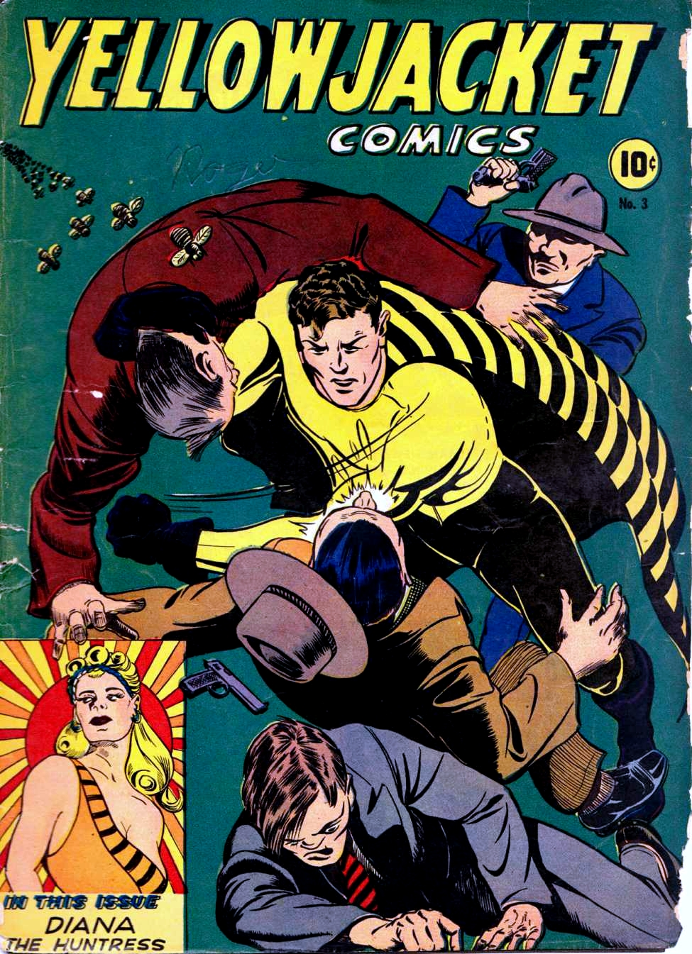 Yellowjacket Comics #3 (November 1944) , published by Charlton Comics (defunct company). Cover art by Ken Battefield